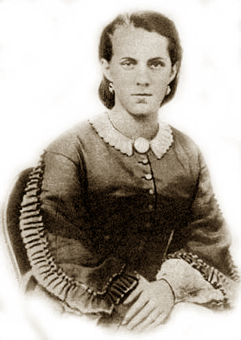 Anna Grigoryevna Snitkina-Dostoevskaya's portrait (1846-1918), spouse of the Russian writer Fyodor Dostoyevsky. The photo was edited by Andrei Sdobnikov